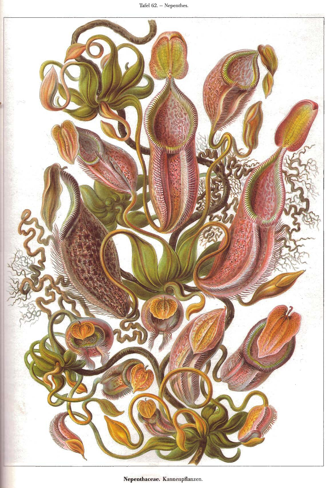 Nepenthes melamphora (Reinward) = Nepenthes gymnamphora Reinw. ex Nees